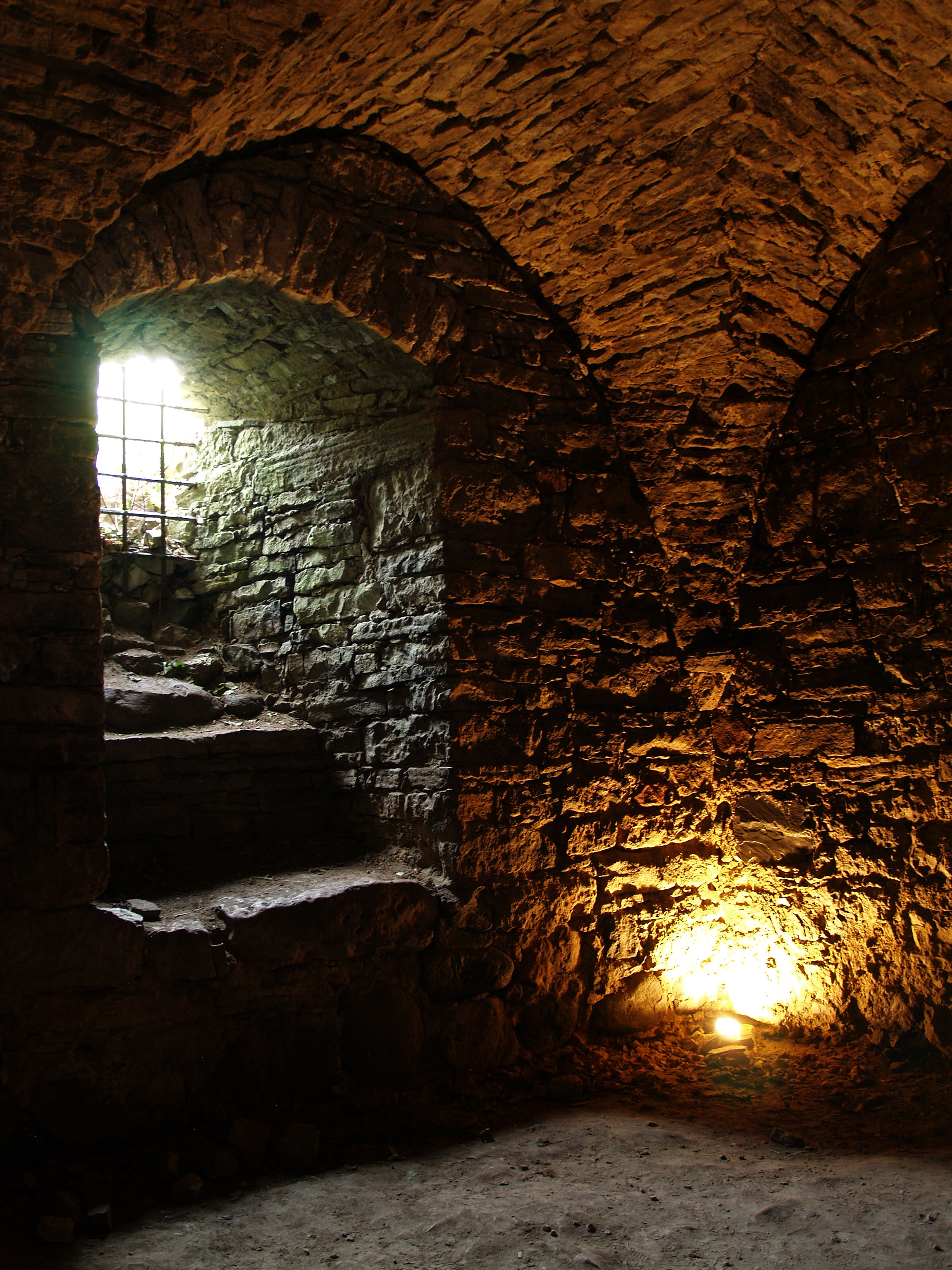 Maasilinna Castle